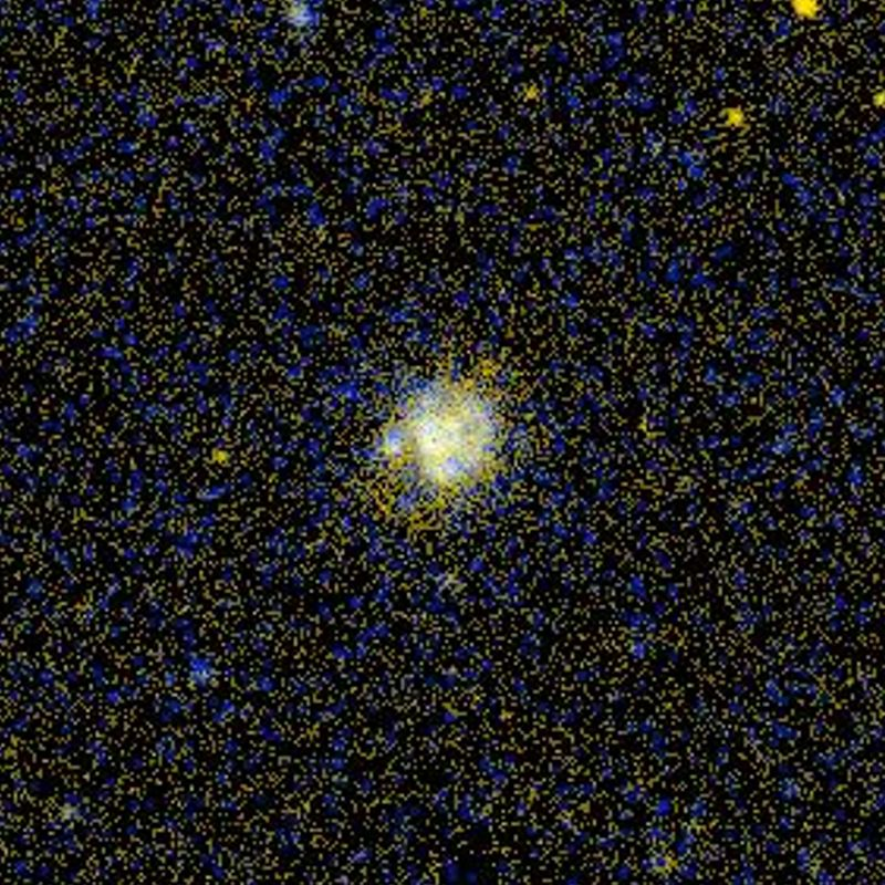 GALEX Sky Survey view of NGC 5665, a spiral galaxy in the constellation of Bootes.